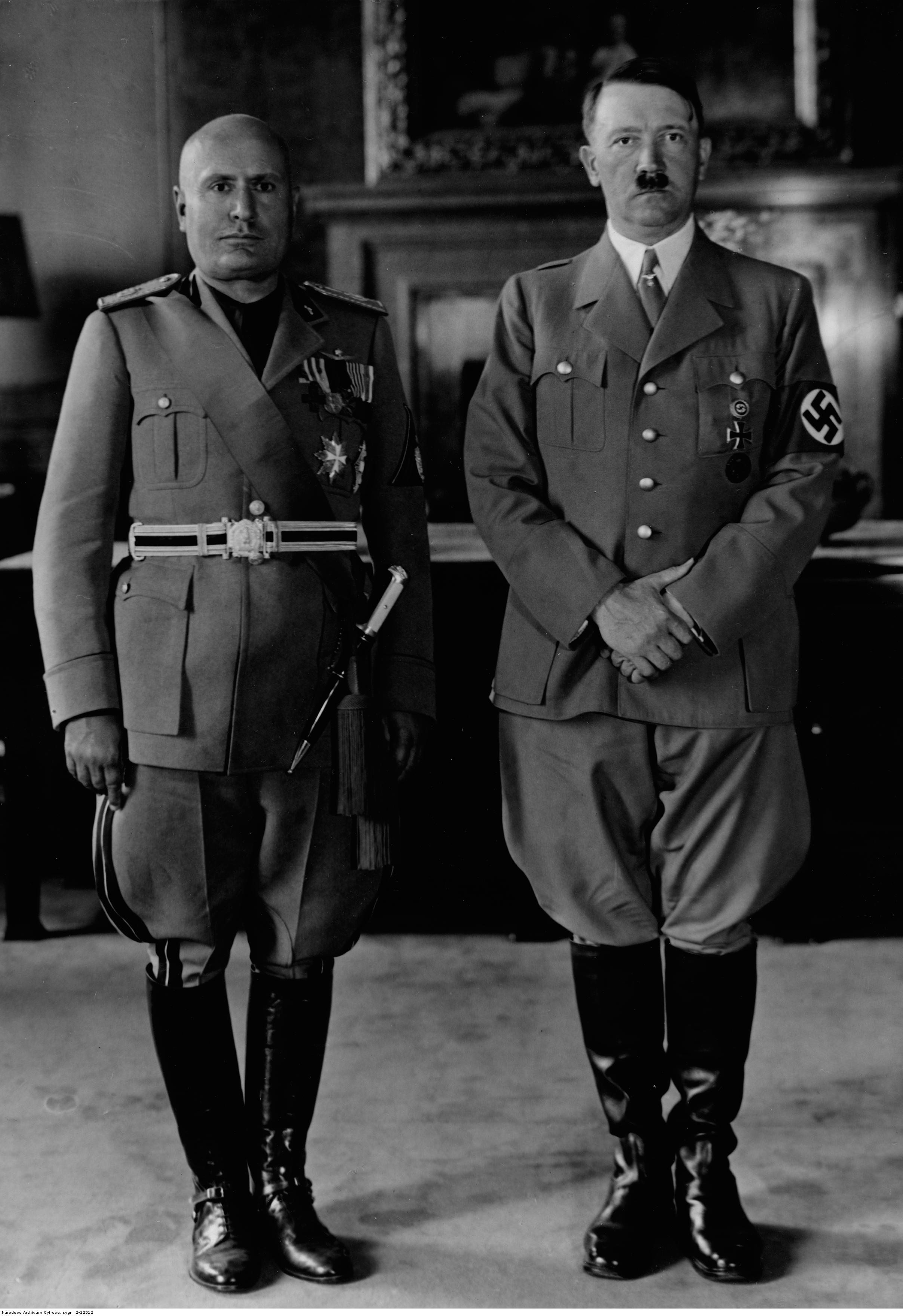 Benito Mussolini and Adolf Hitler during Mussolini's visit in Munich.